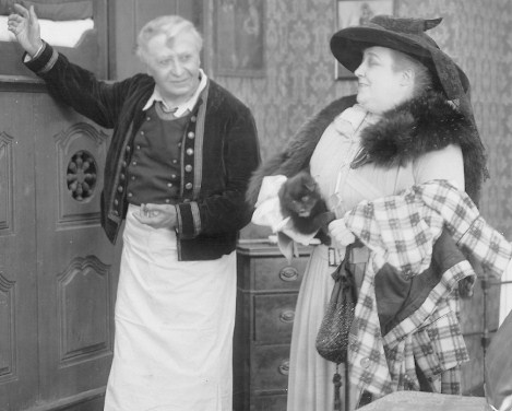 Jane Darwell (right) in The Goose Girl (1915) - original image (see source) cropped